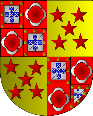 Arms of the Portuguese family Sousa Coutinho, modern Counts of Linhares. Made by JSobral